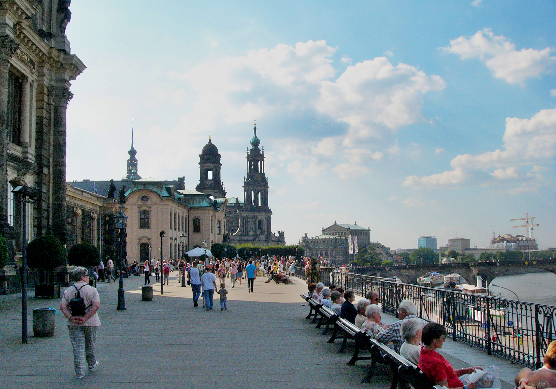 The Brühl's Terrace is located on the Elbe river in Dresden, Saxony, Germany. View to the west.